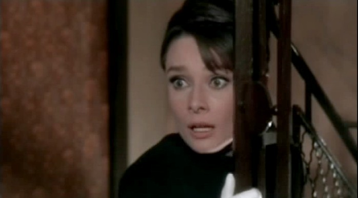 Screenshot of Audrey Hepburn from the film Charade